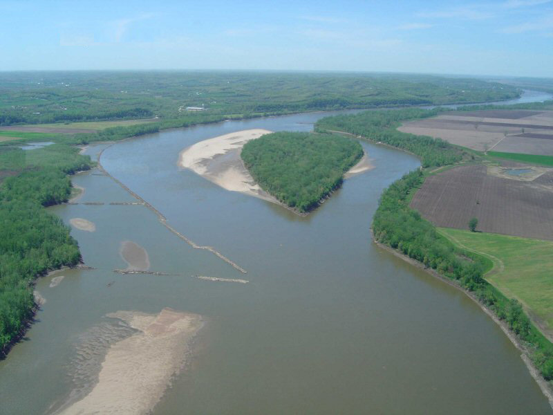 Missouri river near Berger Bend